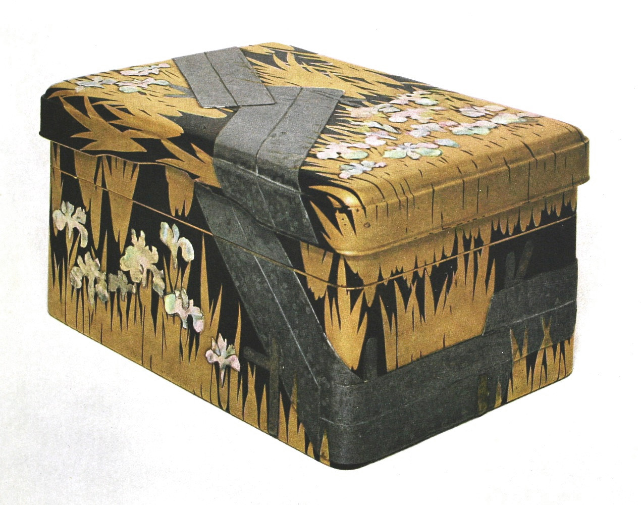 Writing Box with Eight Bridges Ogata Kōrin Rectangular two-tier box with rounded corners and lid; upper tier holds inkstone and water dropper; lower tier is for paper; eight bridges design after chapter 9 of The Tales of Ise; irises and plank bridges 1700, Edo period, 18th century. Writing box; black lacquered wood, gold, maki-e, abalone shells, silver and corroded lead strips (bridges); 27.3 × 19.7 × 14.2 cm Tokyo National Museum, Tokyo